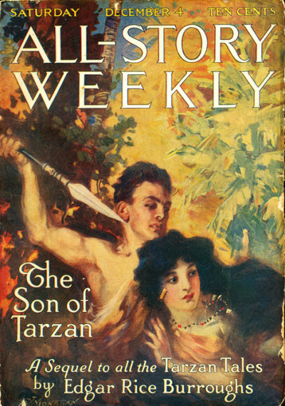 All-Story Weekly, December 4, 1915